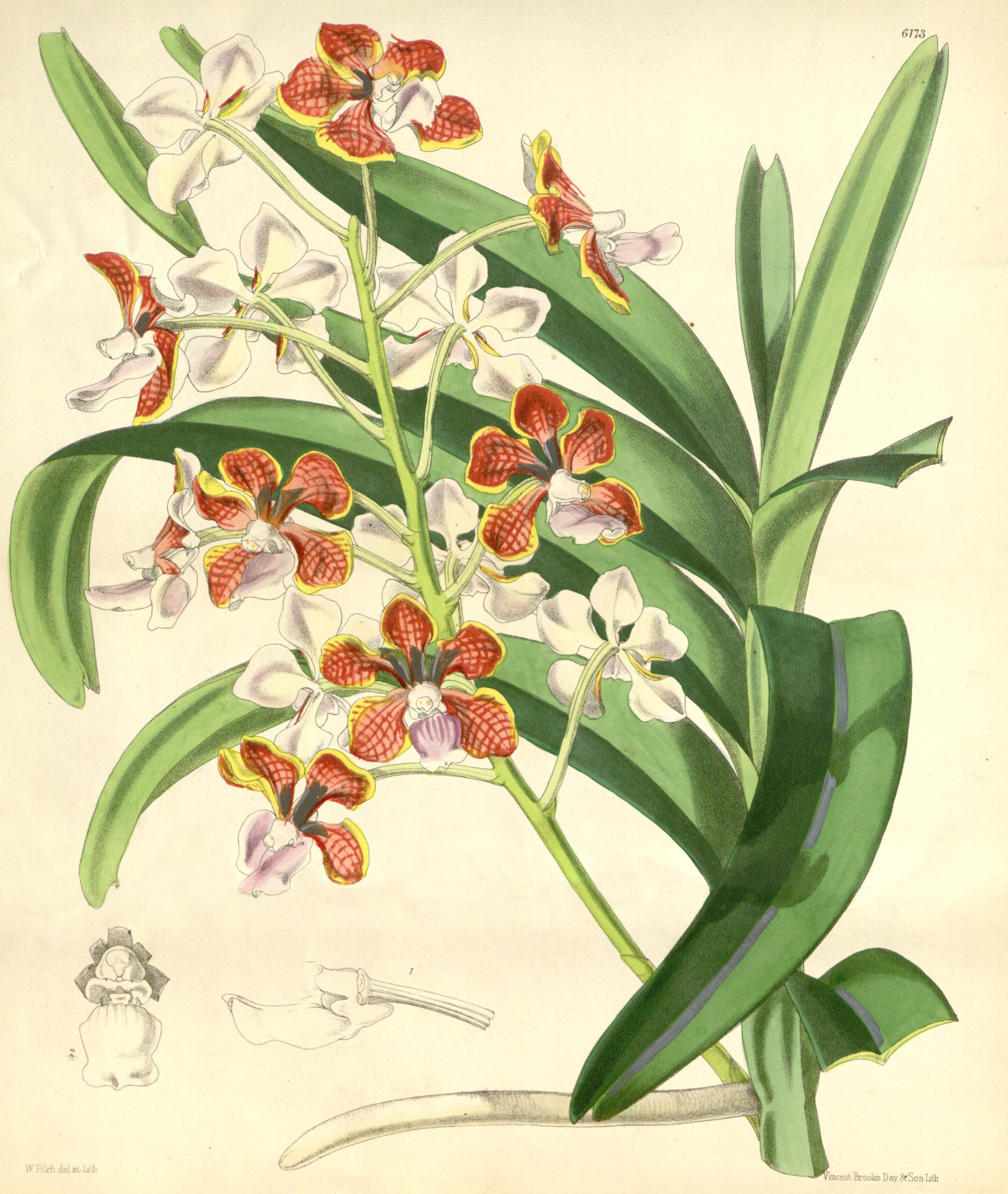 Illustration of Vanda limbata